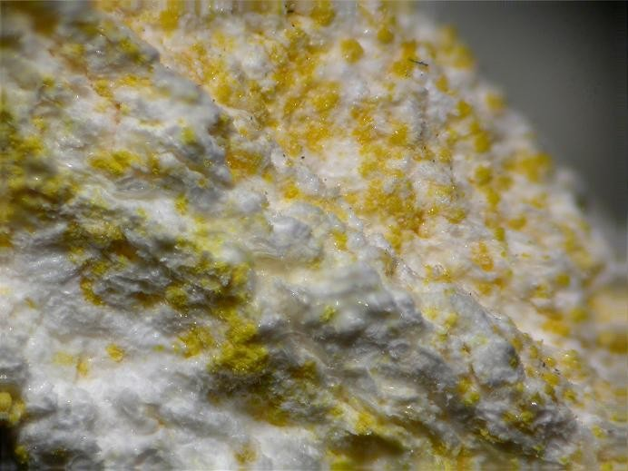 Yellow earthy Calomel (Field of view 5 mm) Locality: Mariposa Mine (California Mountain Mine), Terlingua District, Brewster County, Texas, USA